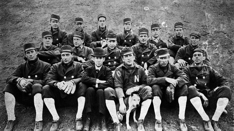 The 1901 Nashville Vols, a Minor League Baseball team from Nashville, Tennessee, that won the Southern Association championship that season